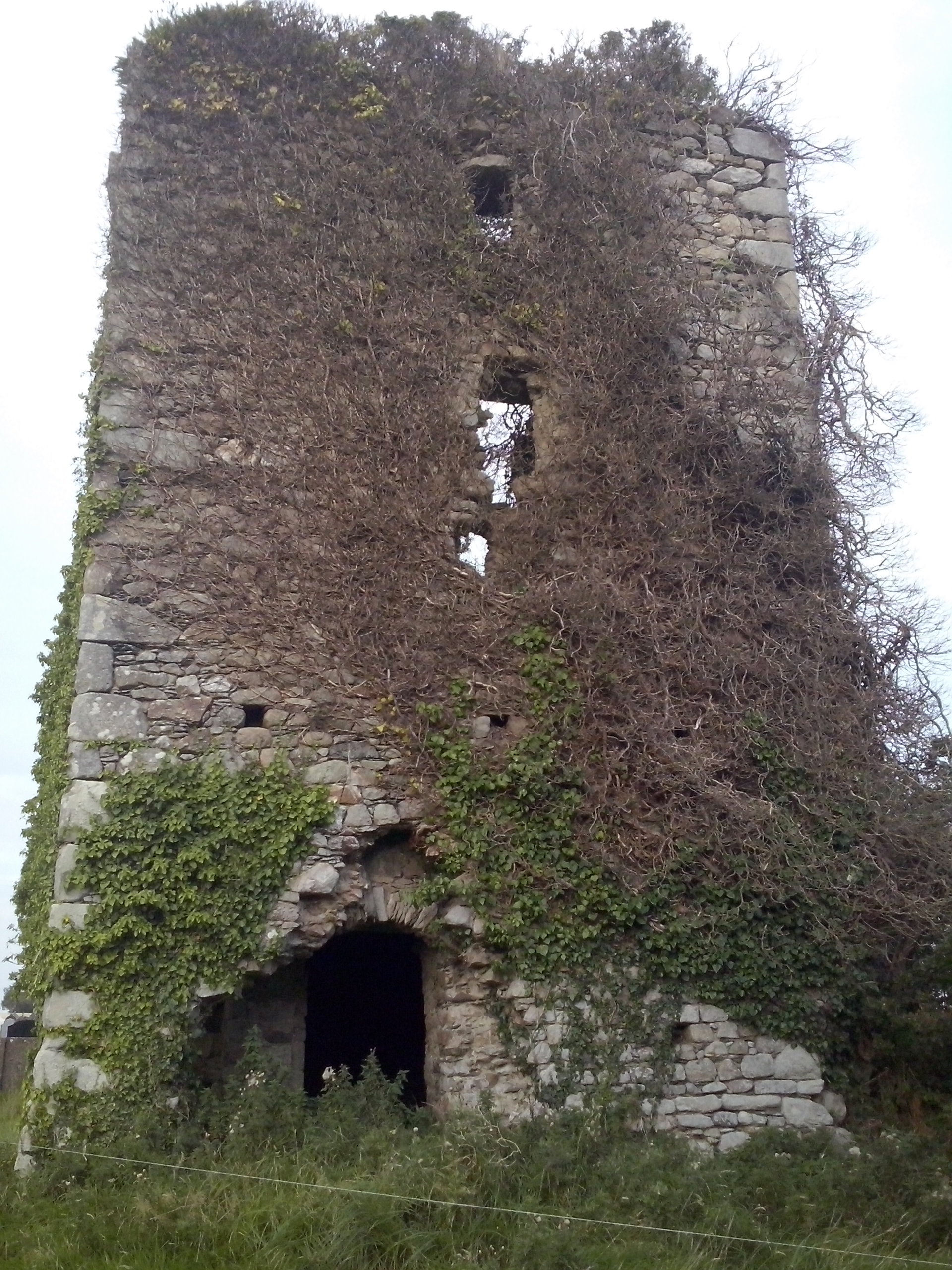 A view of Tellarought Castle from the field in which it is located, showing what might possibly be the main entrance to the tower.